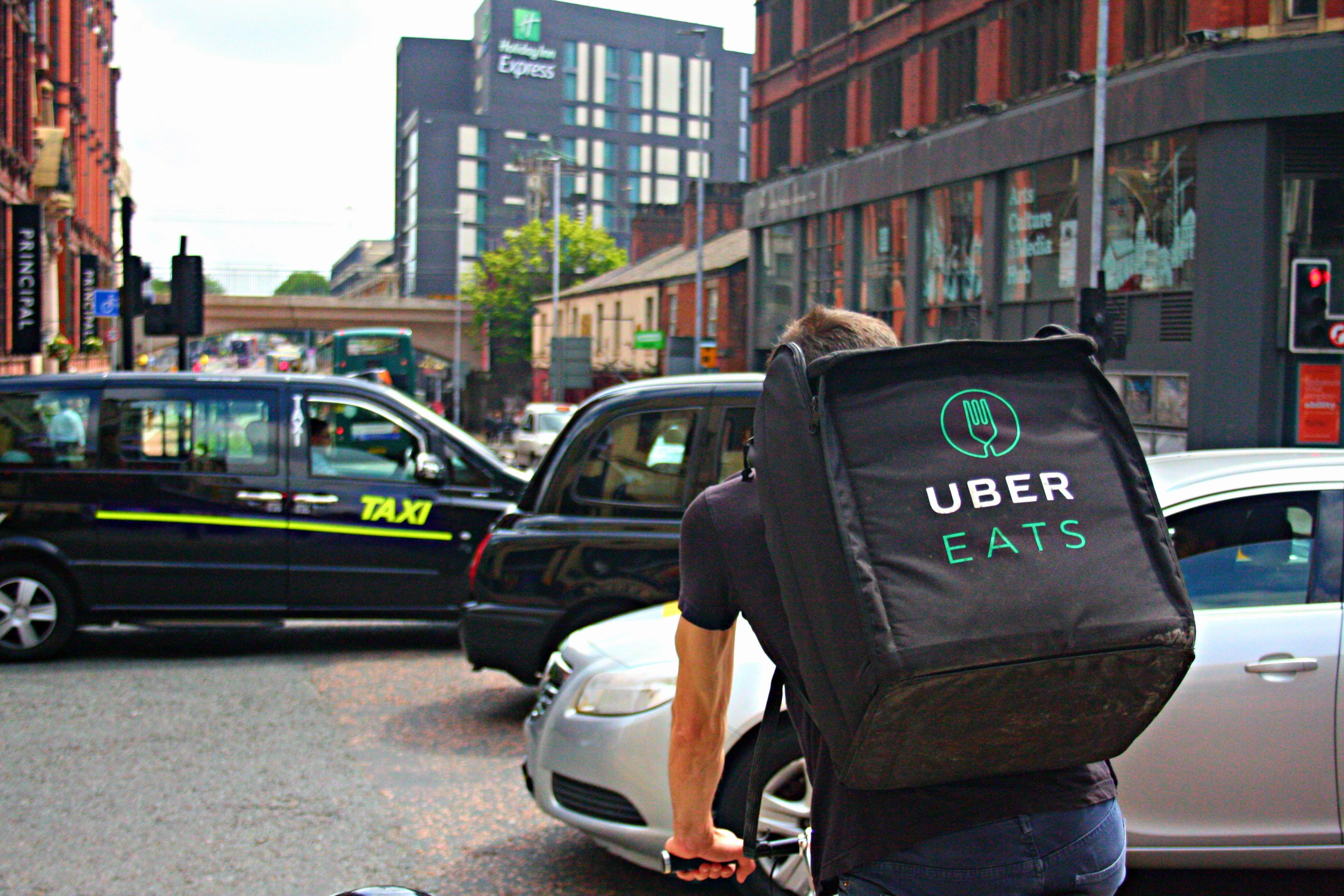 An Uber Eats food delivery driver cycles along a very busy Oxford Road in Manchester. One of a growing number of delivery riders for Uber's food delivery service as demand in Manchester increases. This photo is released under Creative Commons. Use it as you wish. I would appreciate attribution in the form of a link to Cheers